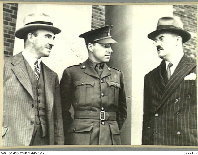 1939-12. MELBOURNE - EMBARKATION OF 6TH DIVISION TROOPS - OFFICER OF AUST. RED CROSS SOCIETY - DR. VICTOR HURLEY C.M.G., MR. B.A. MELLOWSHIP, MR. J. MCCAHON. RED CROSS. IN AUSTRALIA. (NEGATIVE BY E.L.C.) Other information Public Domain information explained at